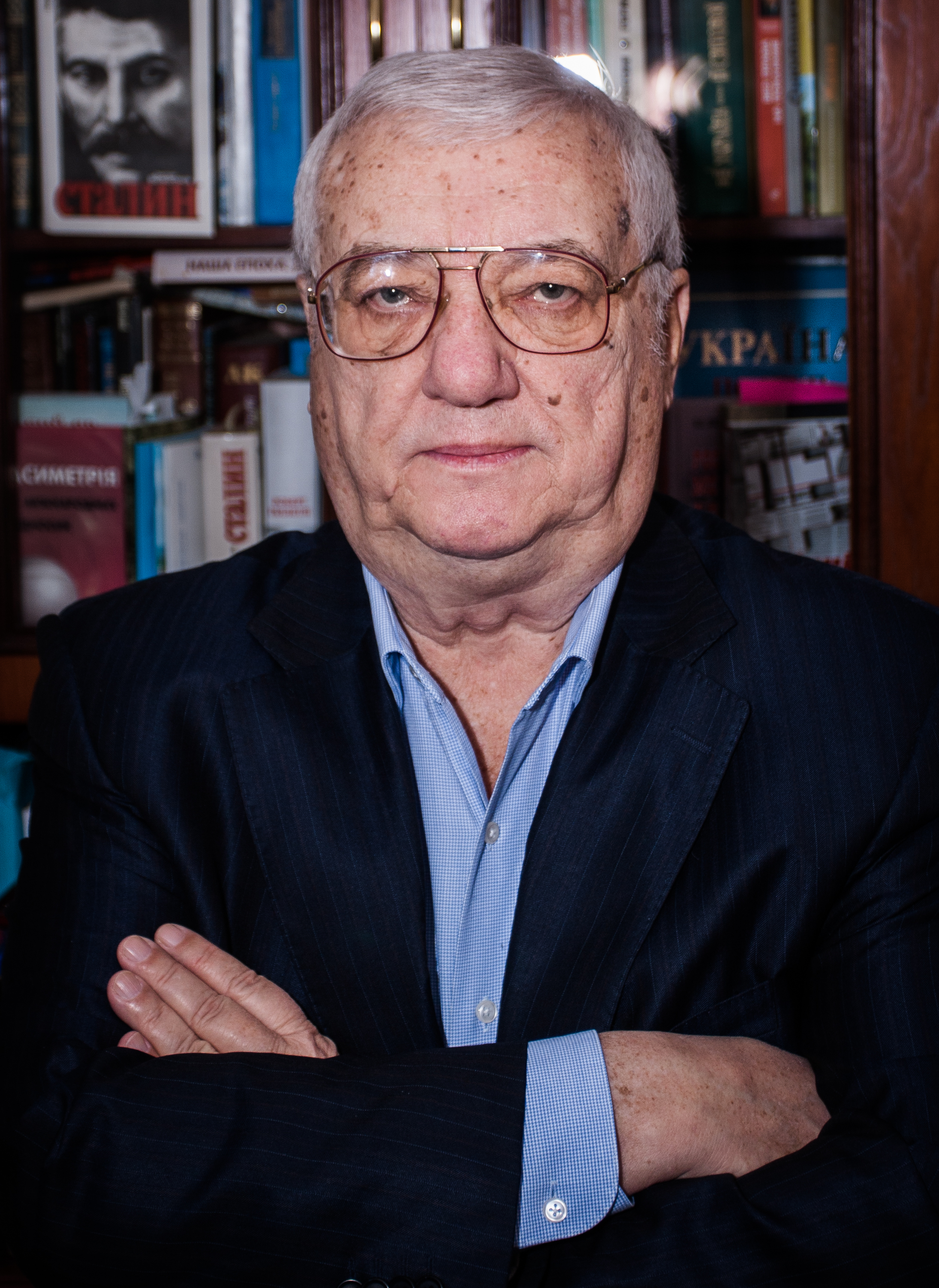 M.D., Ukrainian writer, former diplomat, served as Ukraine's ambassador to Israel, the United States, and Canada